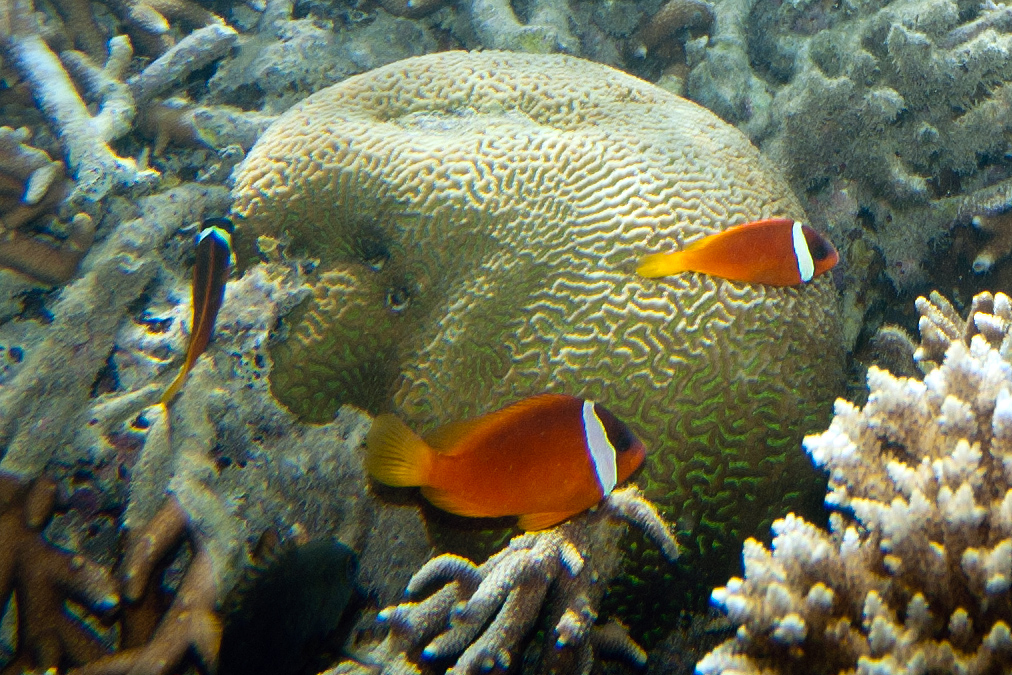 The coral in back of the fish could be the brain coral Symphyllia recta, in the Mussidae family, which Veron describes as sometimes having walls and valleys of contrasting colors. The greenish glow of the valleys is not an illusion.